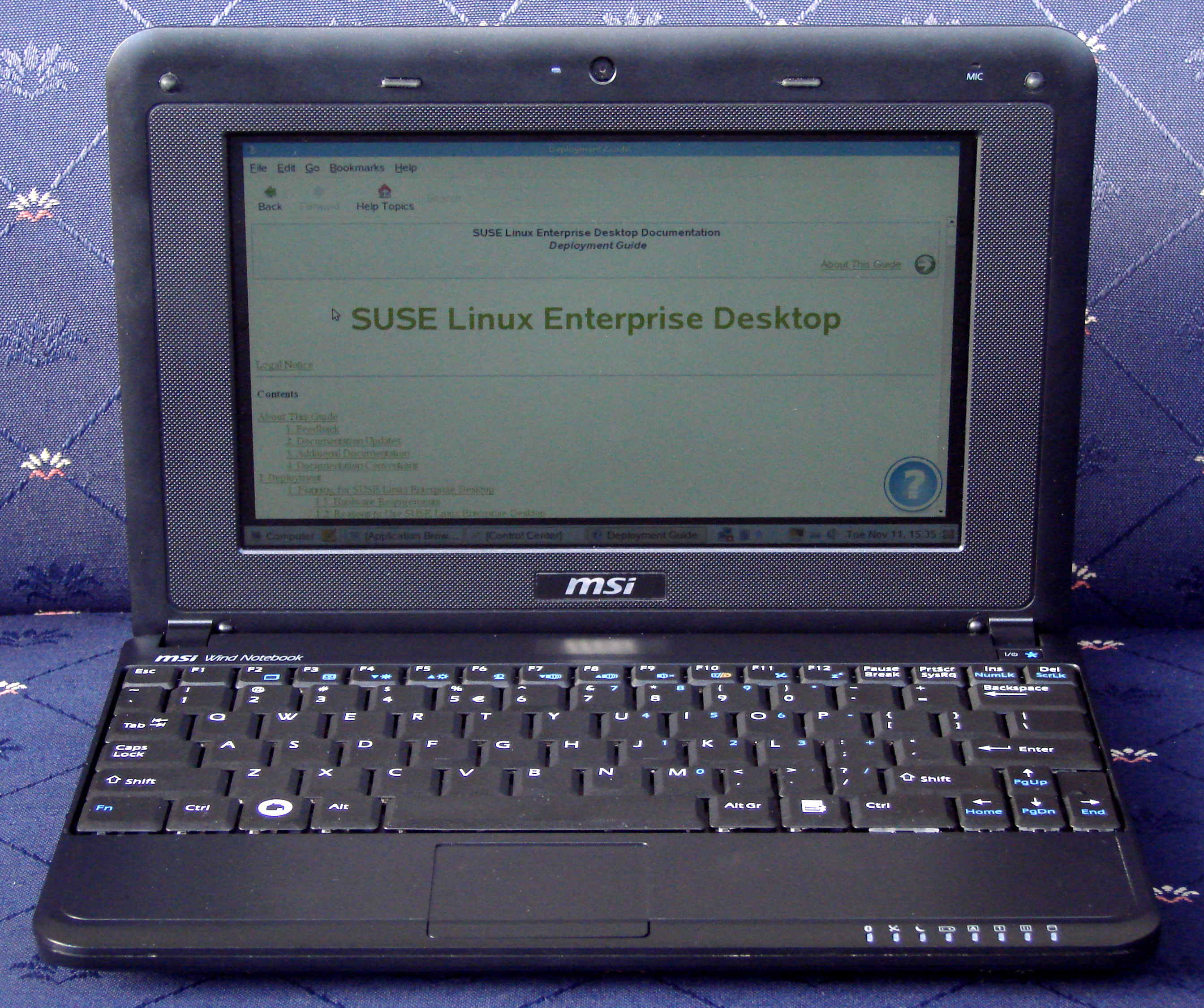 The U90x version of the MSI Wind netbook (bought in the Netherlands 20081107).